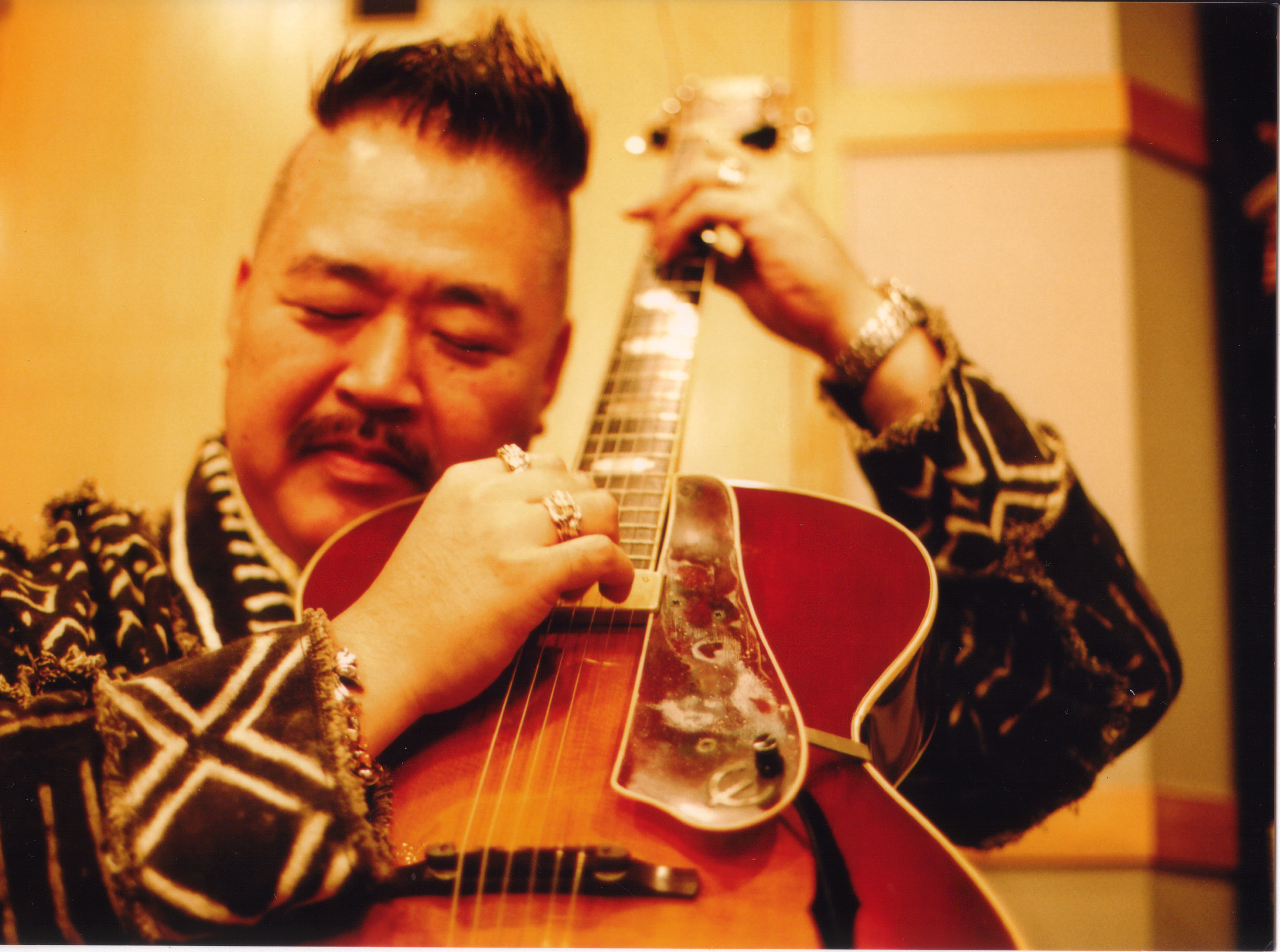 Tyrone Hashimoto's portrait taken in 2003